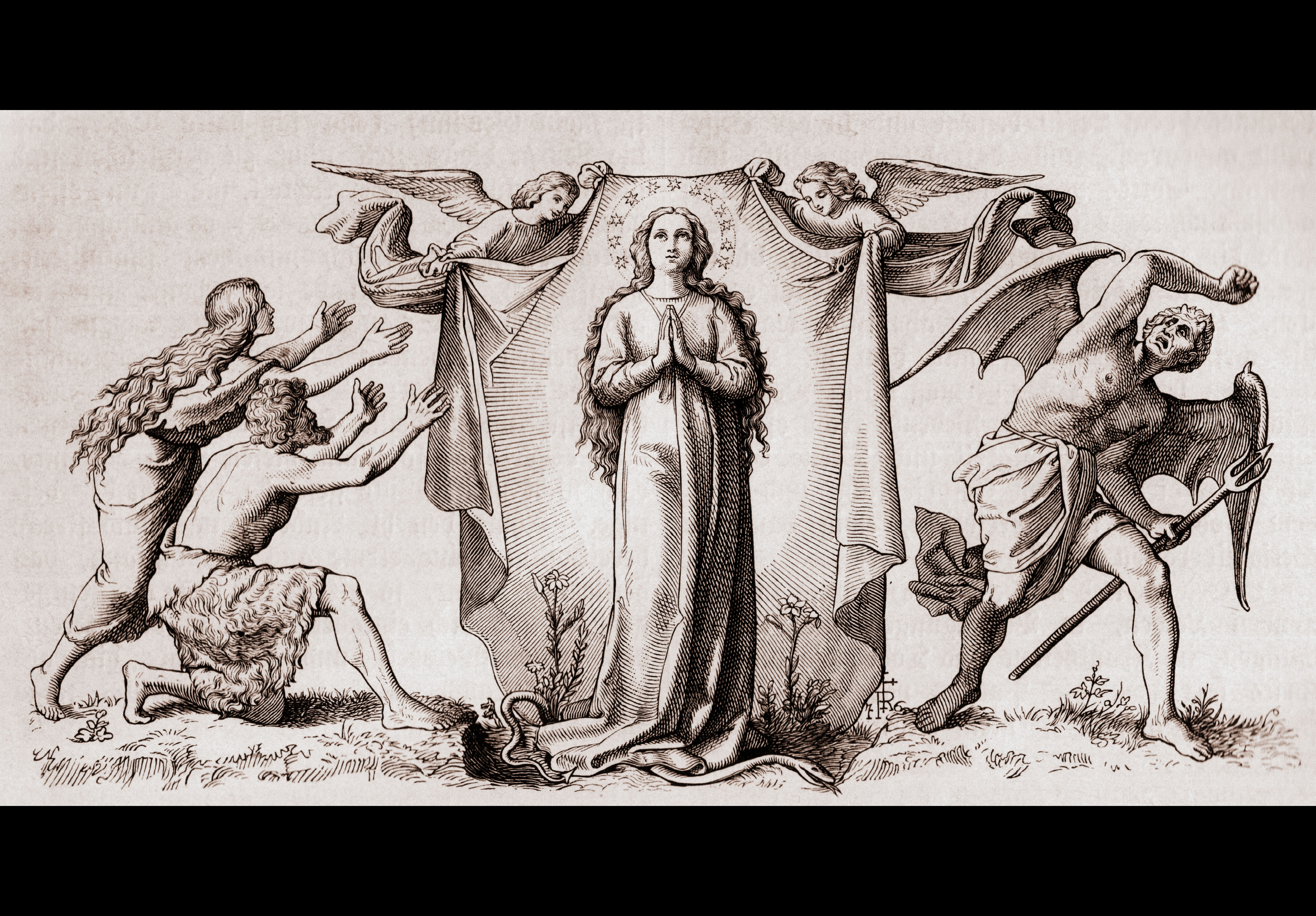 Drawing of Immaculate